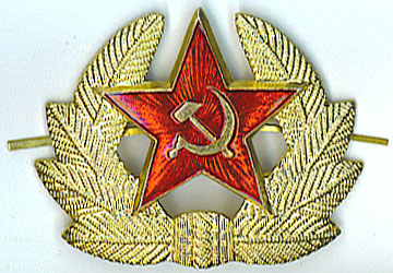 The hat insignia of a Soviet Armed Forces conscript.